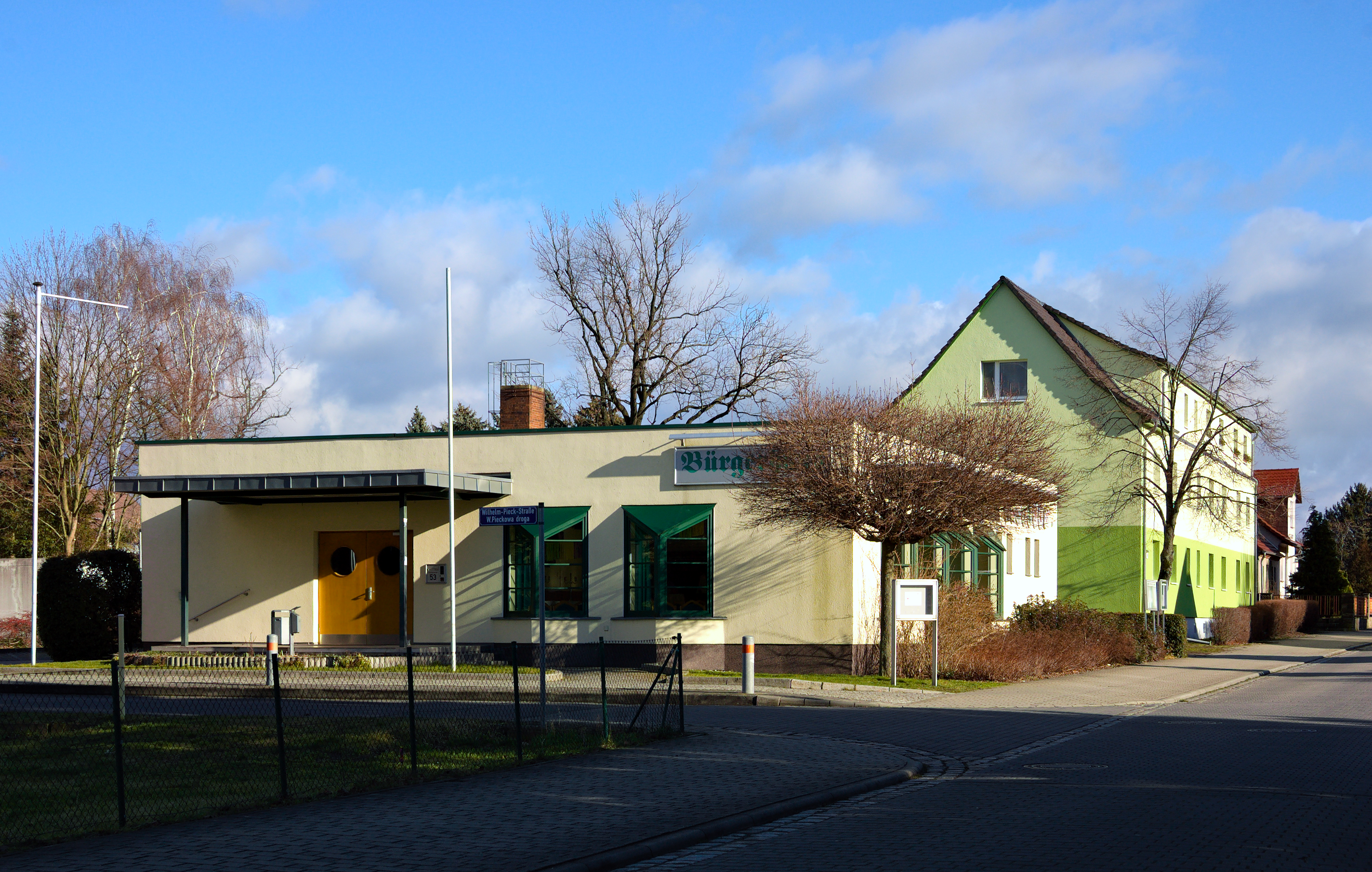 Bürgerhaus Groß Gaglow. Cottbus, Chausseestraße 53.